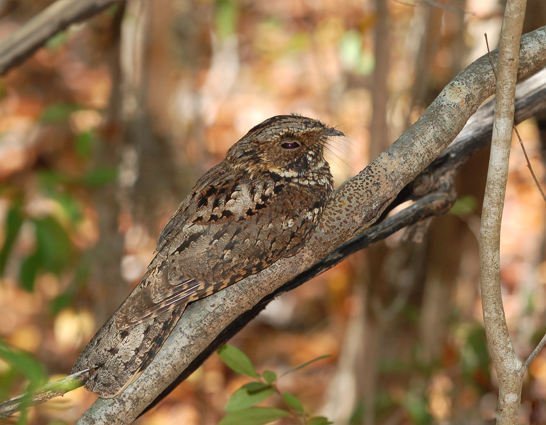 Puerto Rican Nightjar Status: Endangered Listed on June 4, 1973 Photo by Mike Morel Location, Puerto Rico More information